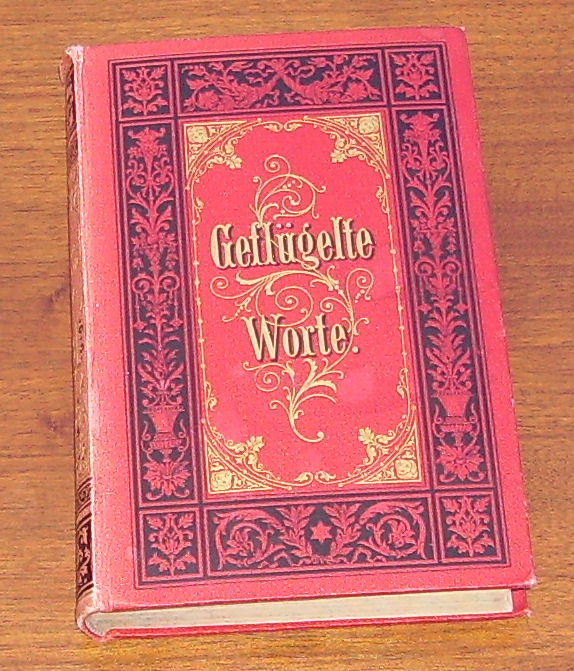 Georg Büchmanns Geflügelte Worte, 12. Auflage von 1880